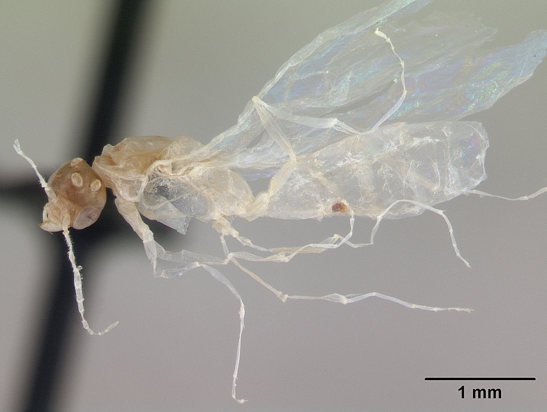 Profile view of ant Anillidris bruchi specimen casent0173341.